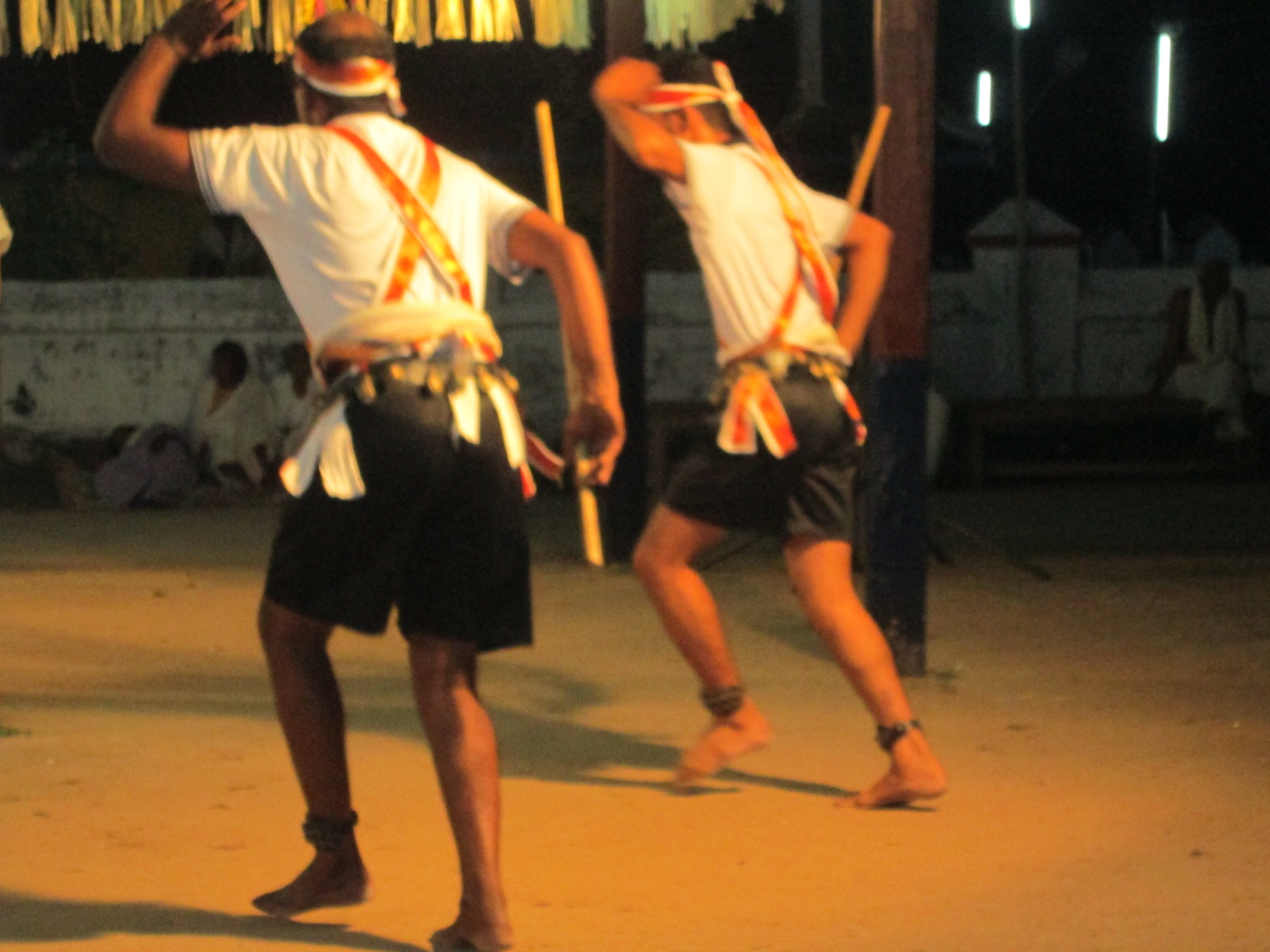 this is erattakudan purattu of kanyarkali in pallassana village